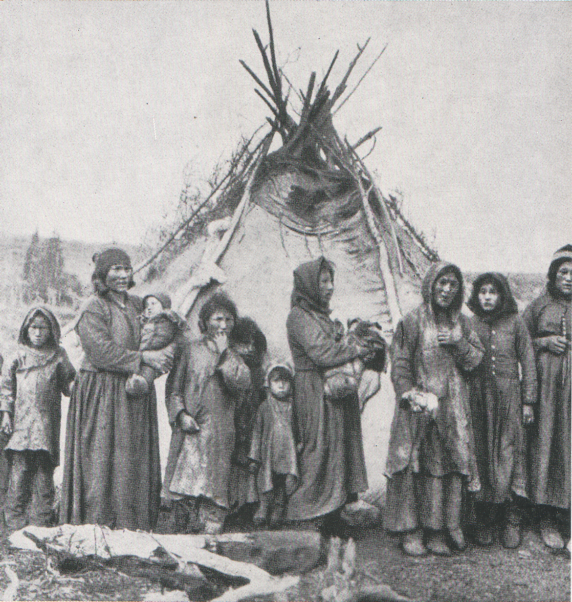 Naskapi women, wearing woolen ad deerskin clothing. One has a Montagnais cap. The tent covering is dressed skins, smoke-blackened at the top.